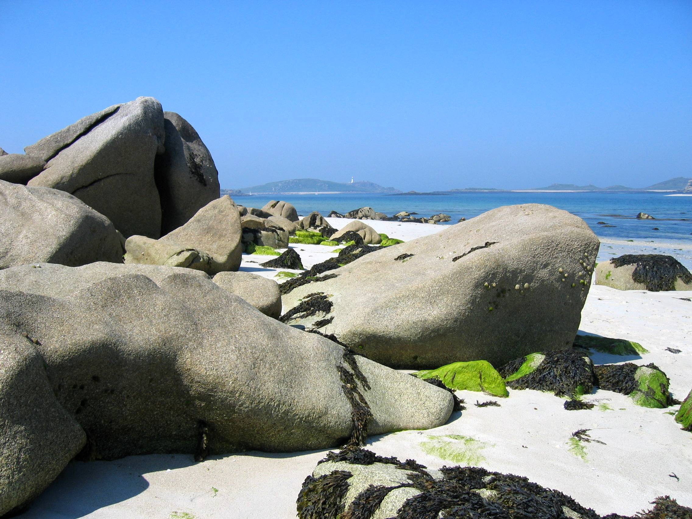 An image of the beach of Tresco, one of five uninhabited islands within the Isles of Scilly in the UK.Tresco